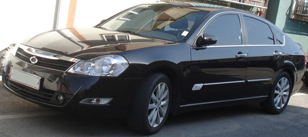 Renault Samsung SM5 New Impression